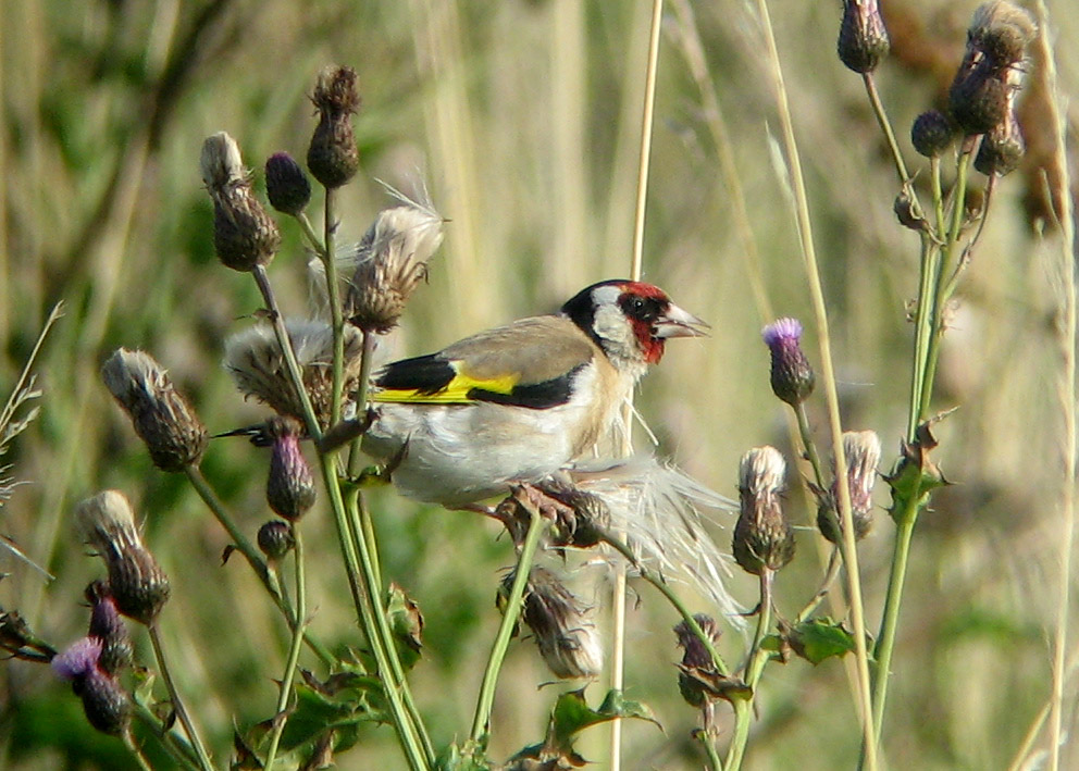 European Goldfinch Carduelis carduelis, St Mary's Wetland, Whitley Bay, Northumberland, UK